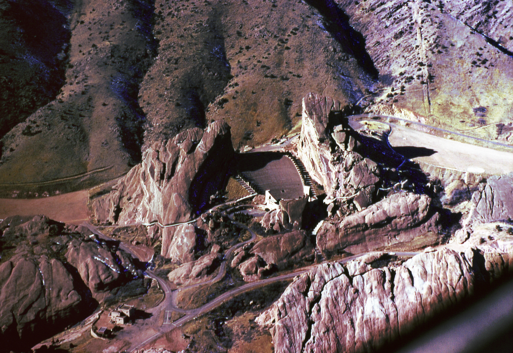 Aerial view of the Red Rocks Amphitheater, west of Denver, Colorado. Taken with 35mm Ektachrome slide film.